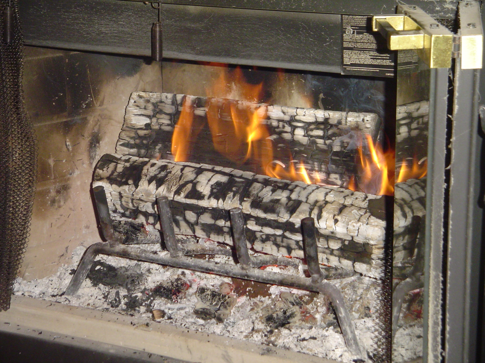 Wood burning in a fireplace equiped with an andiron or firedog